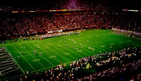 Minnesota Vikings exhibition game